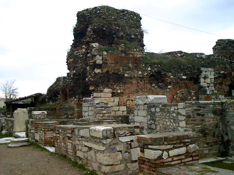 Stone ruins of Byzantine shops — at the archaeological site of Sardis. Located near present-day Sart, in the Manisa Province of western Anatolia, Turkey. Credits Photo taken by User:AtilimGunesBaydin, on February 1, 2003.